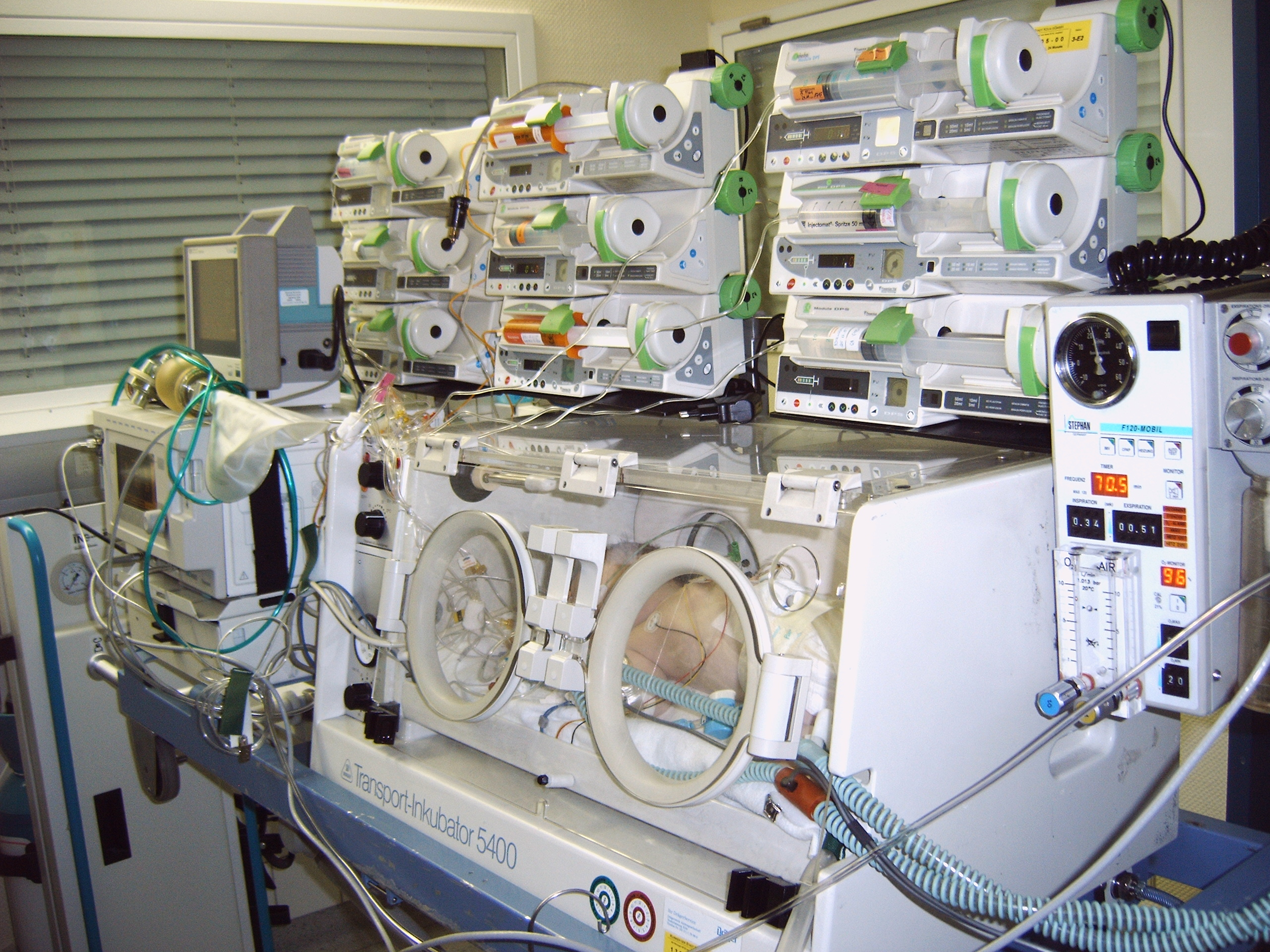 A transport incubator for transferring neonates on a intensive care level